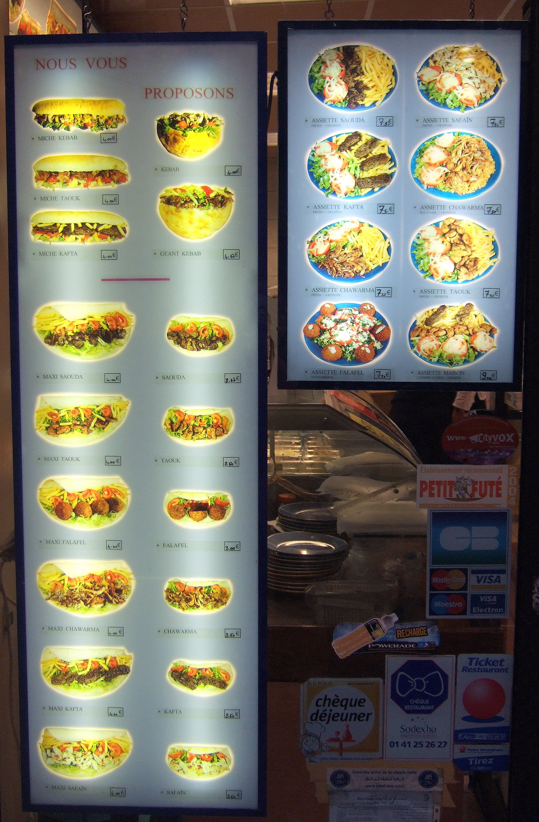 The menu of a typical kebab shop in Lyon, France. The basic choices come down to: Flat bread (pita style) or Turkish bread Veal (beef), turkey, frozen crumbed fish or falafel On a plate or take-away.